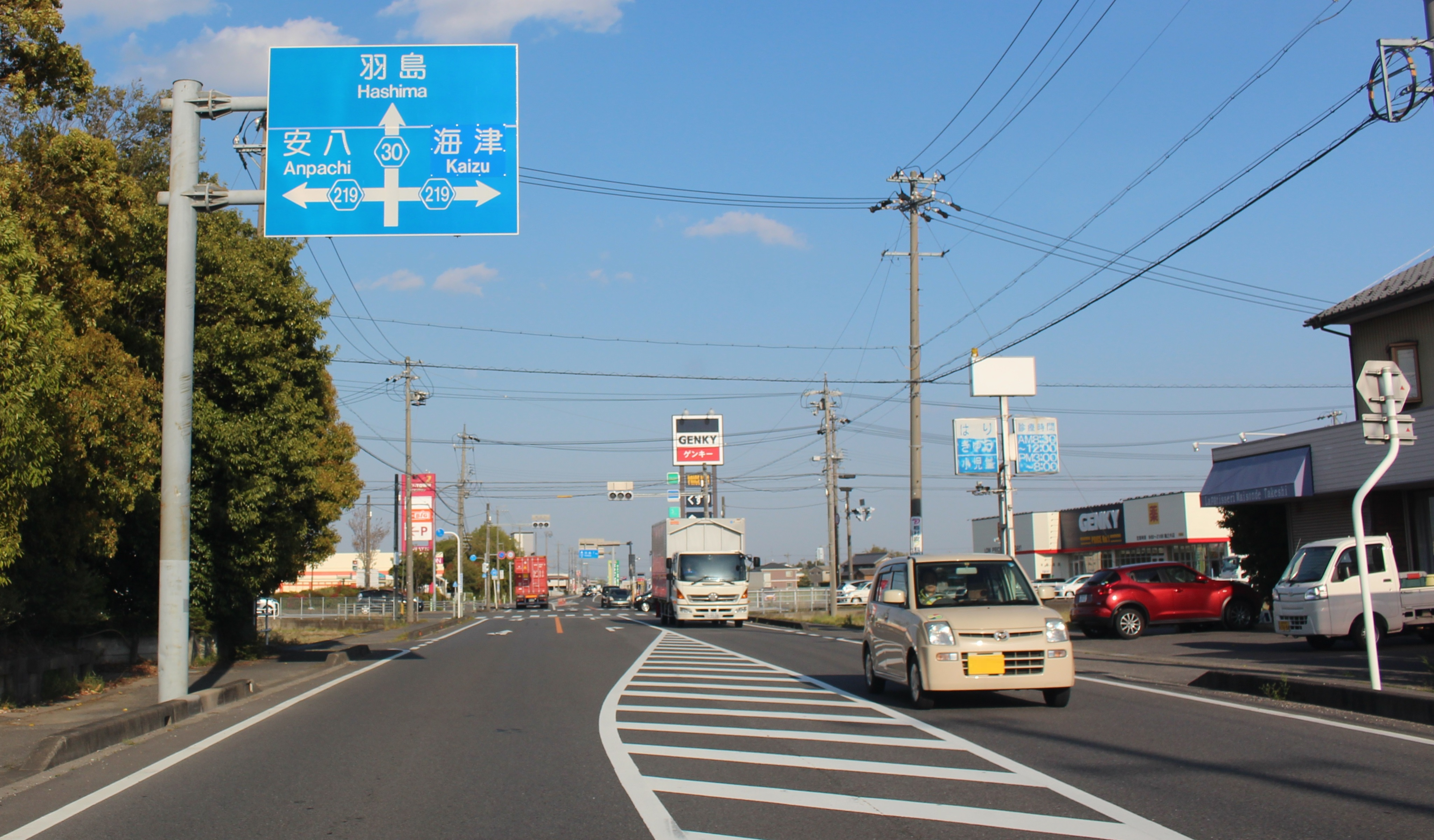 Gifu Prefectural Road Route 30 and Gifu Prefectural Road Route 219 in Nirematashinden, Wanouchi, Gifu Prefecture, Japan.